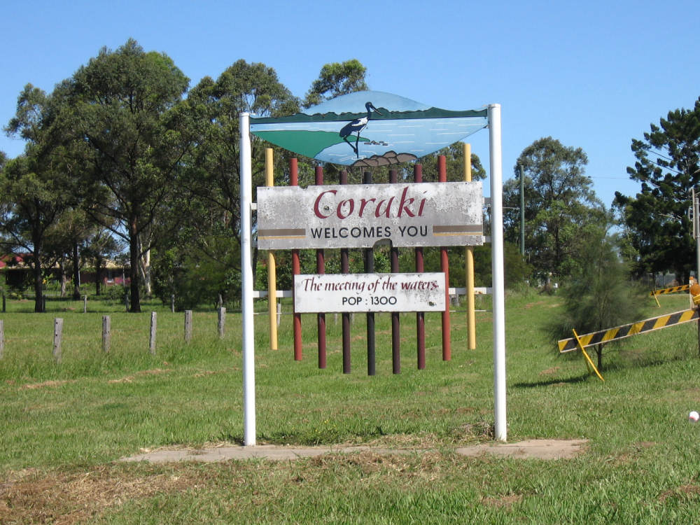 Welcome sign at the outskirts of Coraki. Photo taken by me